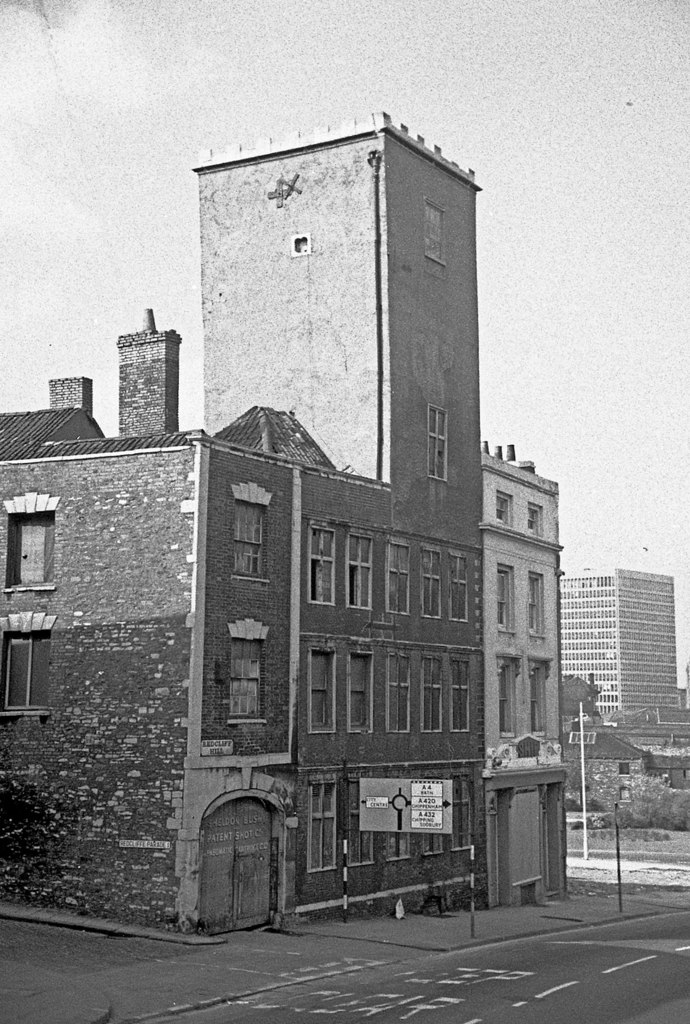 The Shot Tower, Redcliff Hill